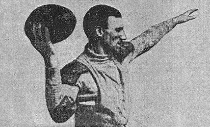 Bradbury Robinson Throwing a Spiral Football Pass